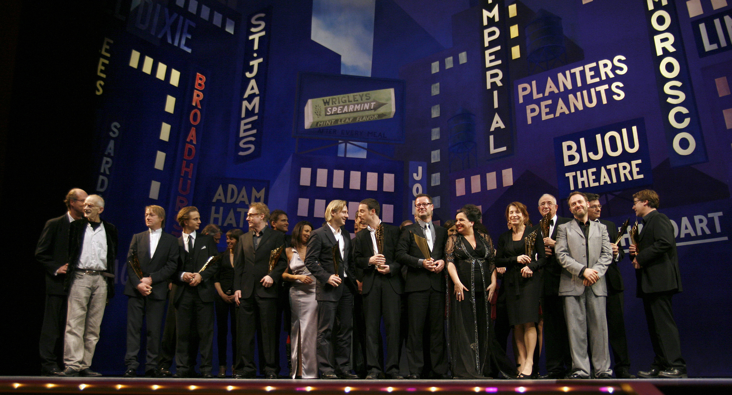 Winners and nominees of the Nestroy-Theaterpreis 2008 (Etablissement Ronacher, Vienna)